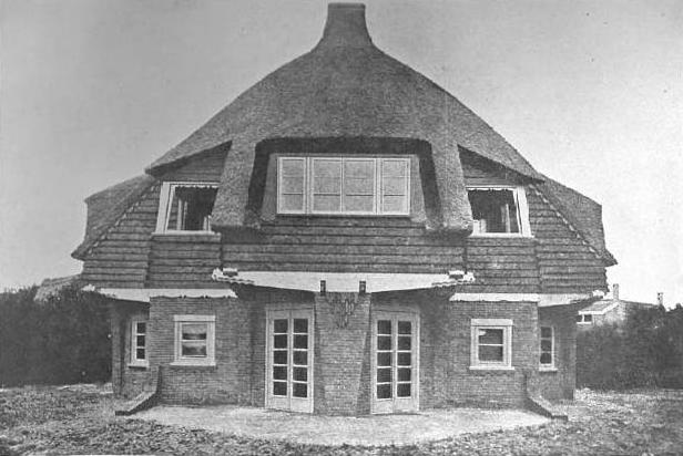 Anonymous. House Meerhoek, Bergen, the Netherlands (architect C.J. Blaauw). c 1919. Photo. From De Stijl, vol. 2, nr. 3 (January 1919): facing p. 30.